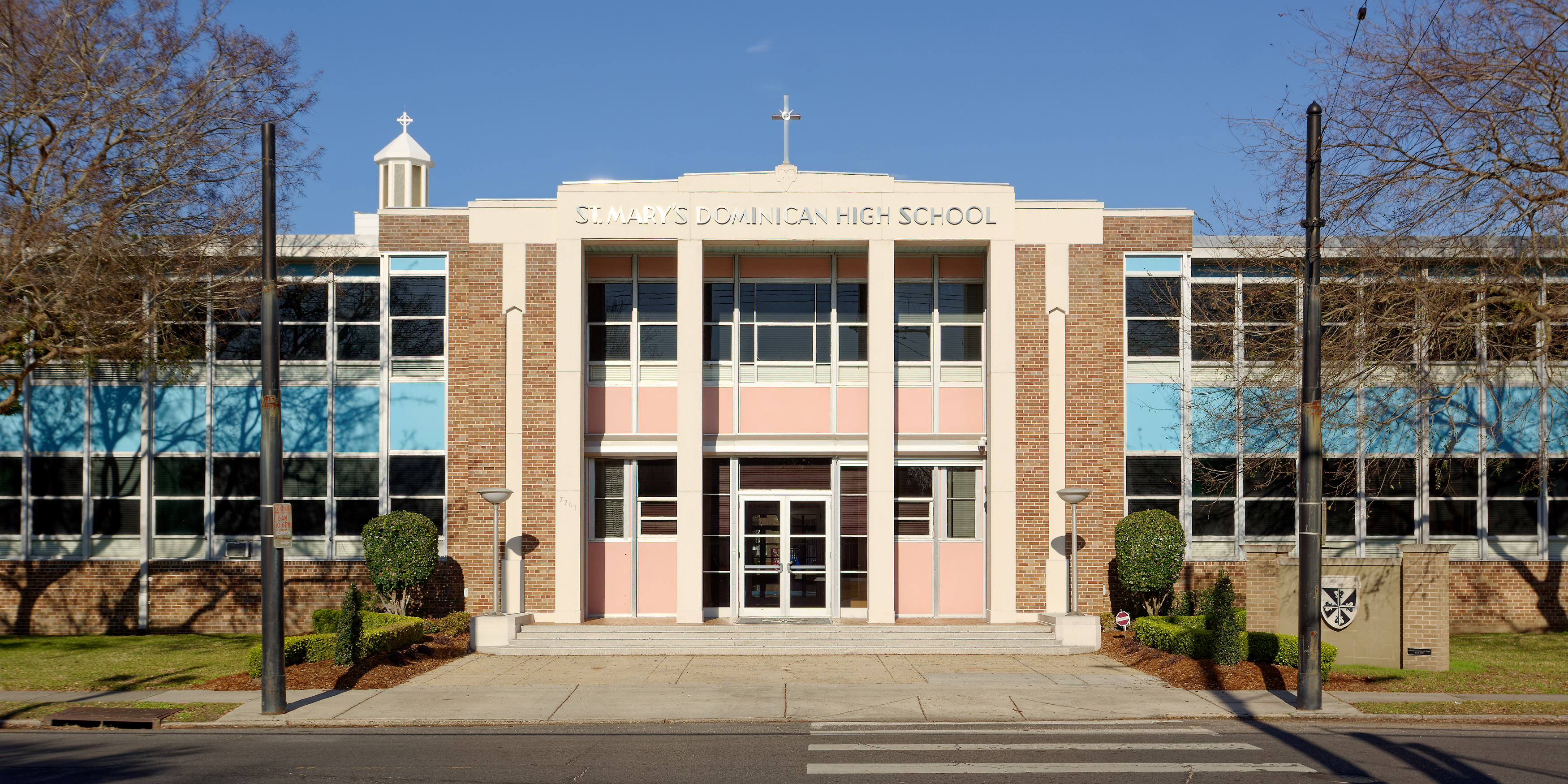 St. Mary's Dominican High School, New Orleans, Louisiana, U.S.A. main entrance as seen from Walmsley Ave. February 2, 2019